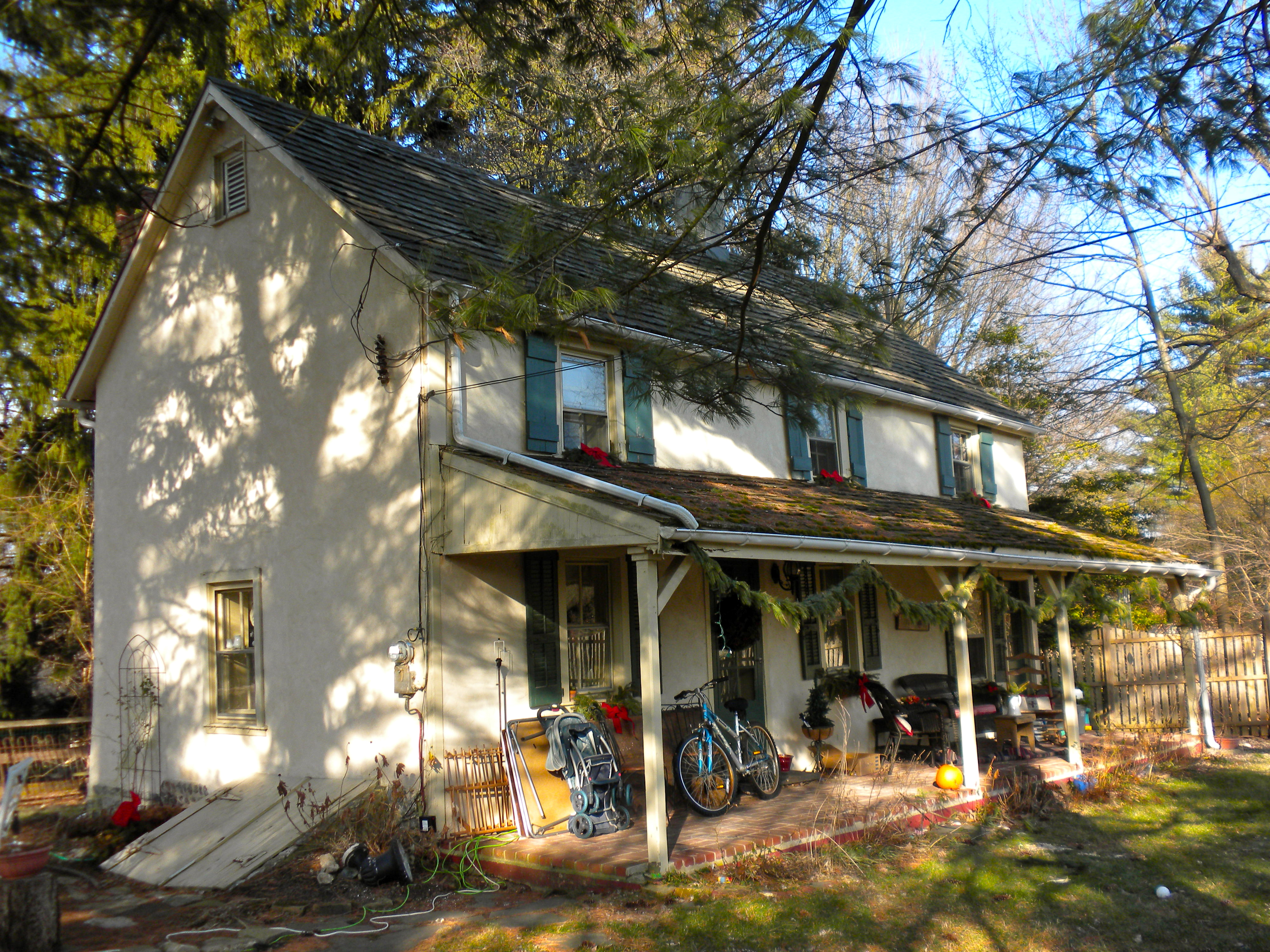 Hannah White Log House on Boot Rd at Spackman's Lane north of West Chester, PA. On NRHP. No, the logs don't show. I donate this photo to the public domain.